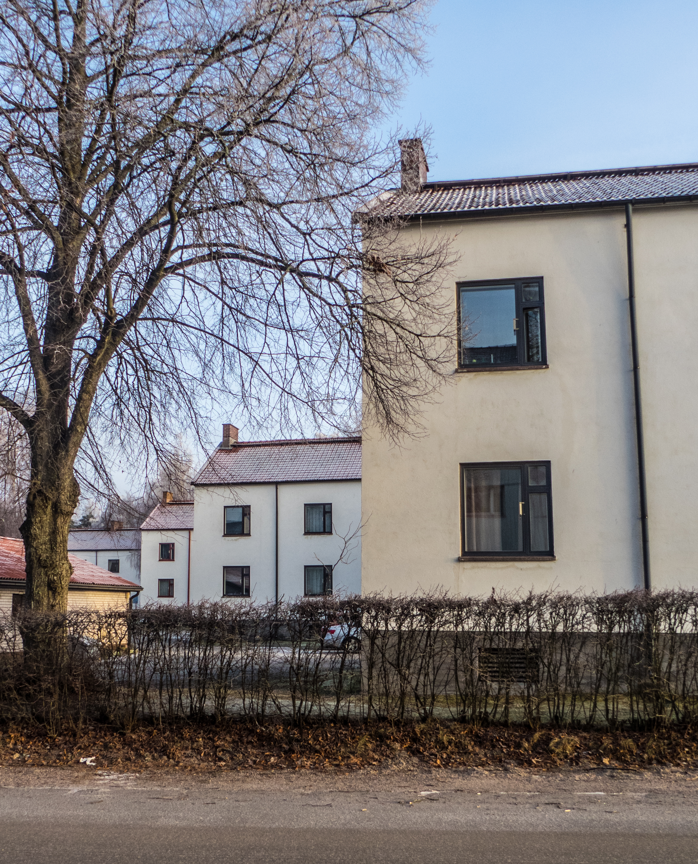 Rental apt buildings planned to be torn down around 2020. Kunnallissairaalantie in Mäntymäki, Turku, Finland